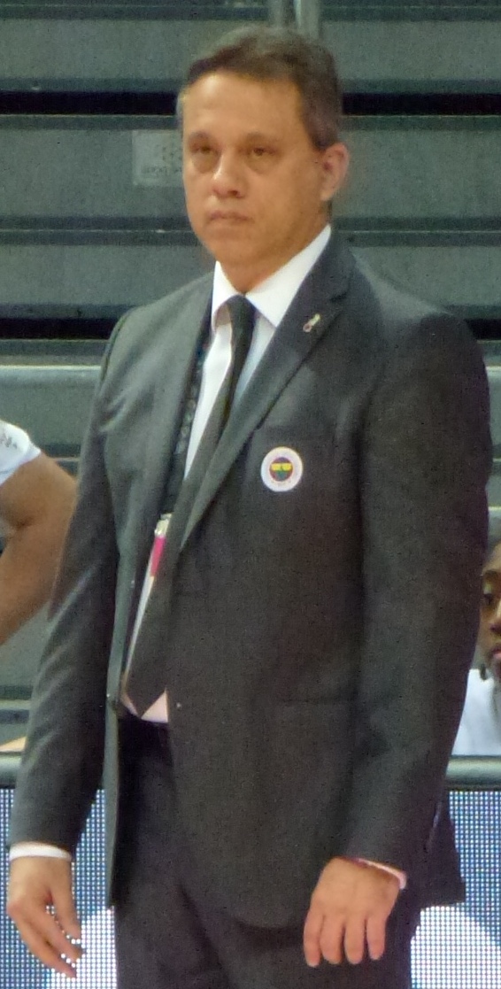 Fenerbahçe Women's Basketball - Nadezhda Orenburg 2015-16 EuroLeague Women semi final on 15 April 2016 in Ülker Sports Arena